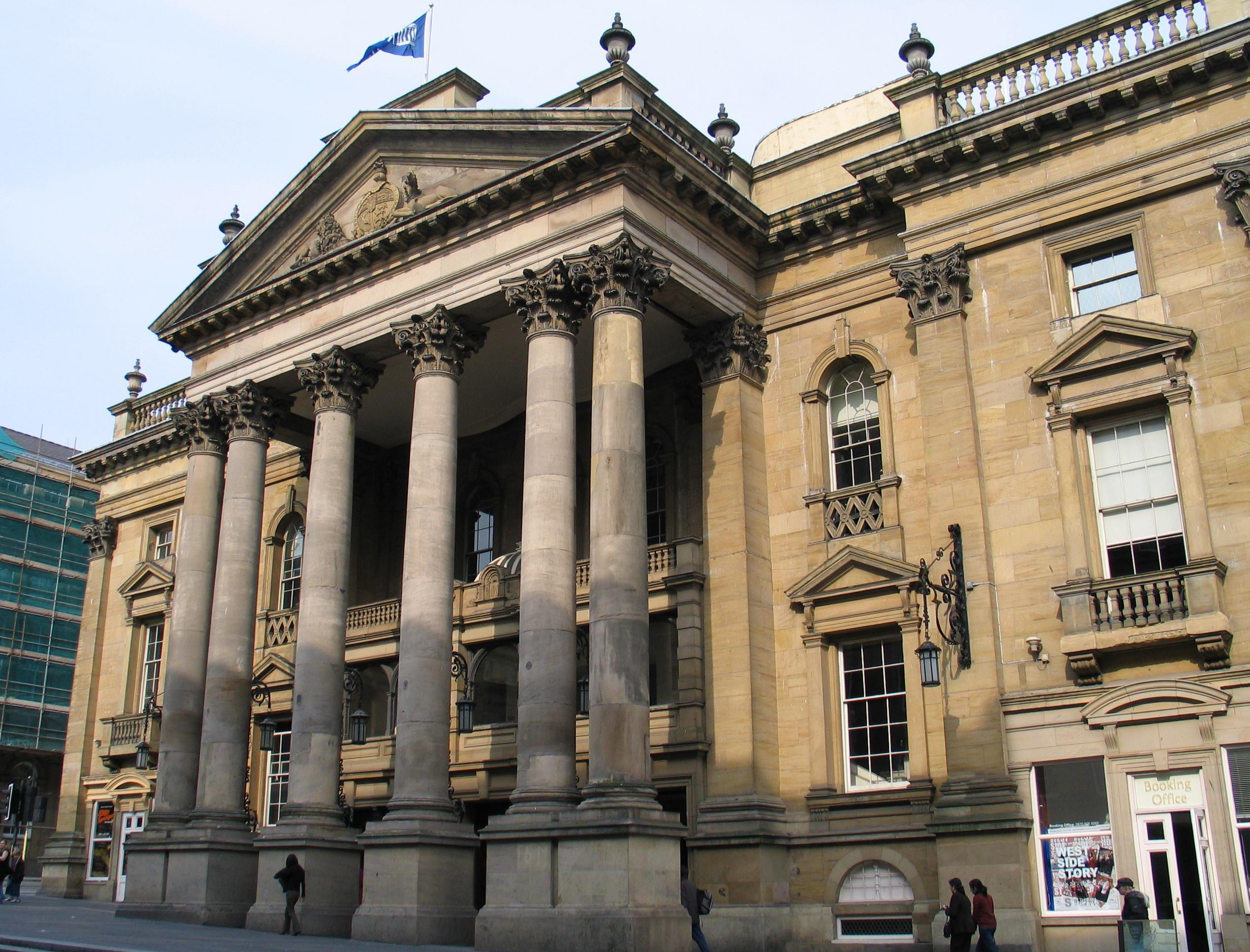 Facade of the Theatre Royal, Newcastle upon Tyne